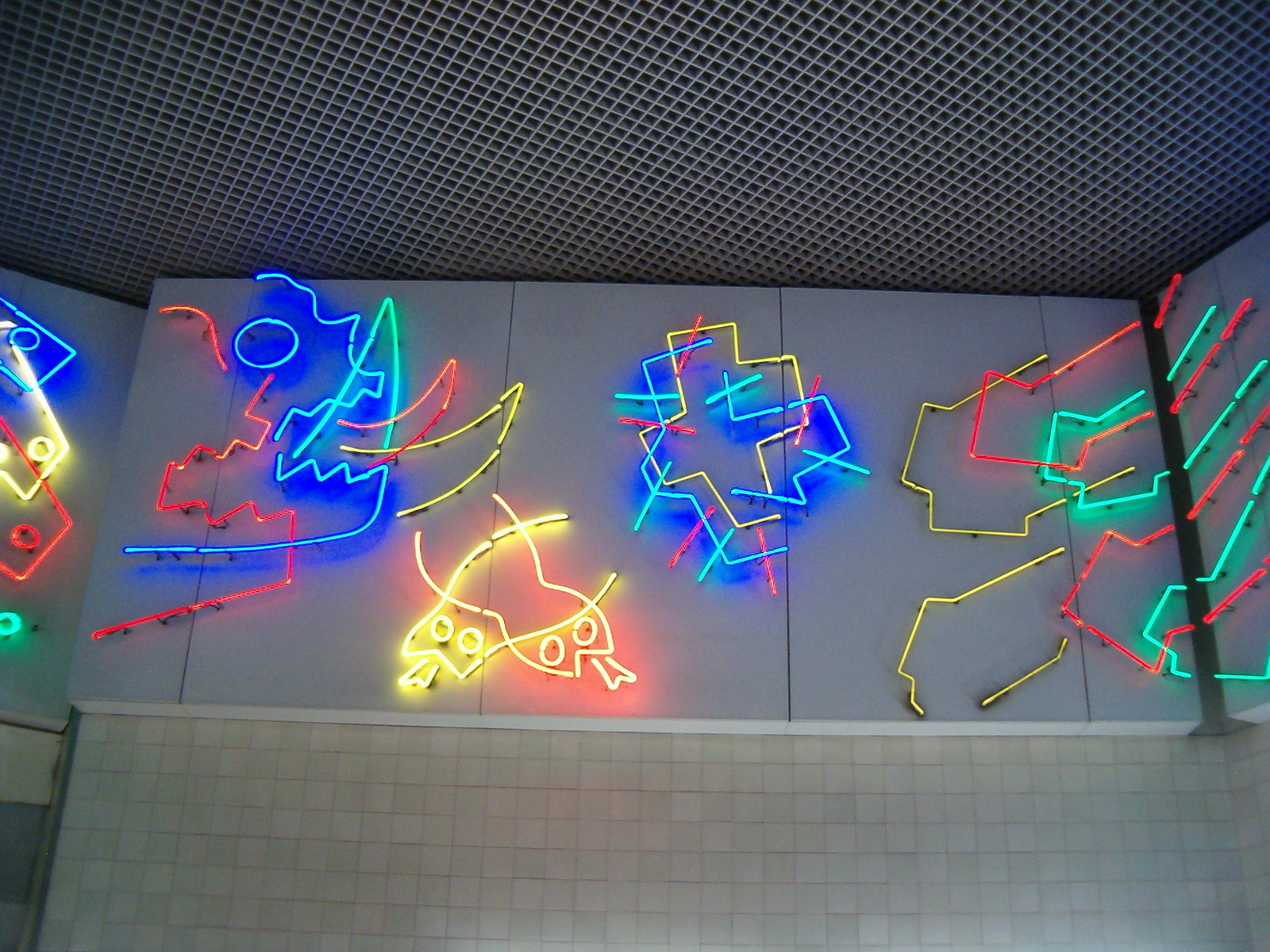 Metro Station Carnide in Lisbon Metro